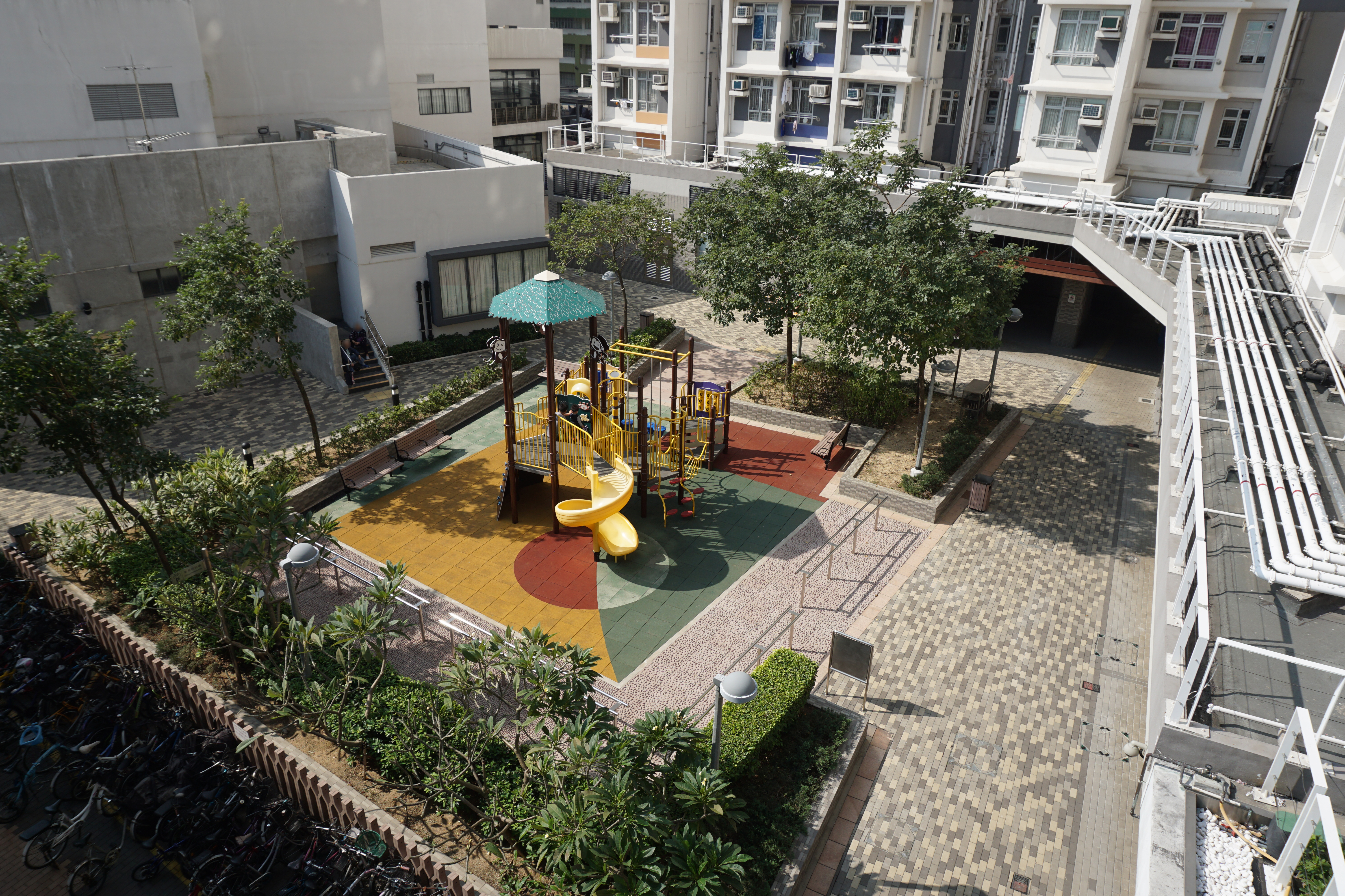 Lung Yat Estate in Tuen Mun, Hong Kong.